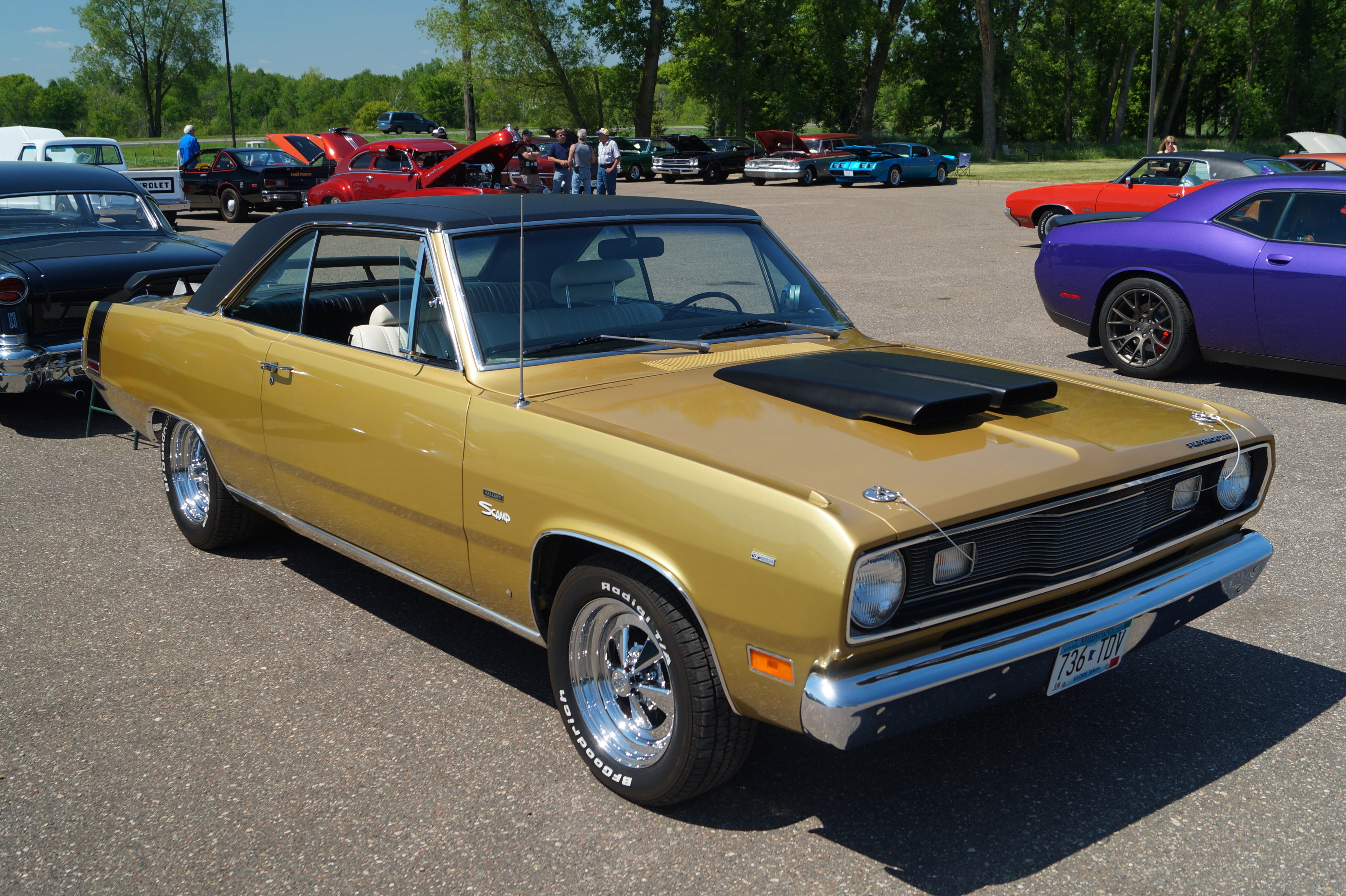 Click here for more car pictures at my Flickr site. Oldsmobile Club of America Minnesota Chapter 4th Annual Spring Dust Off Car Show & Swap Meet Unique Classics on 65 Ham Lake, Minnesota